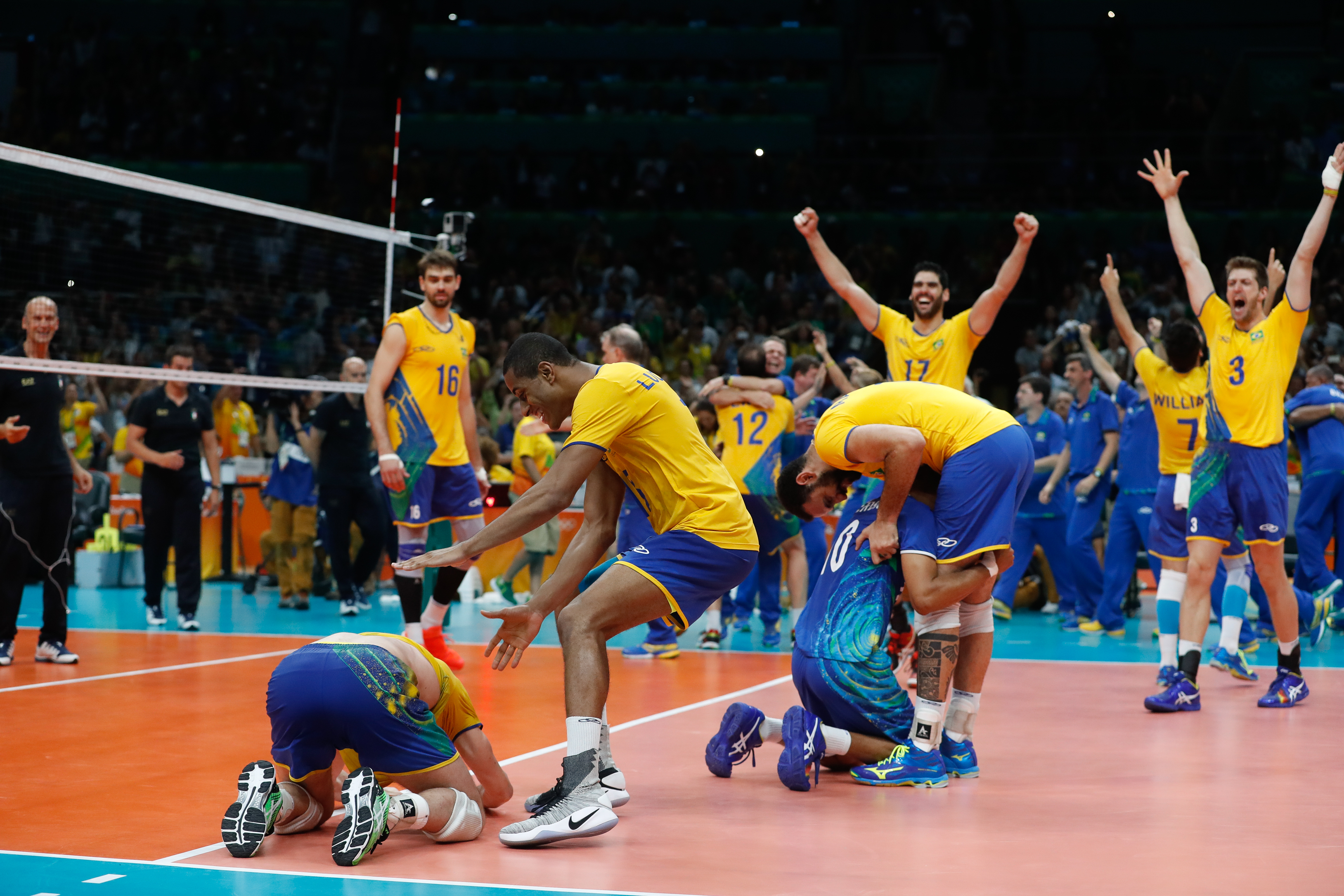 Rio de Janeiro - O Brasil venceu hoje, por 3 sets a 0, a Itália e conquistou a terceira medalha de ouro olímpica no vôlei de quadra masculino (Fernando Frazão/Agência Brasil)